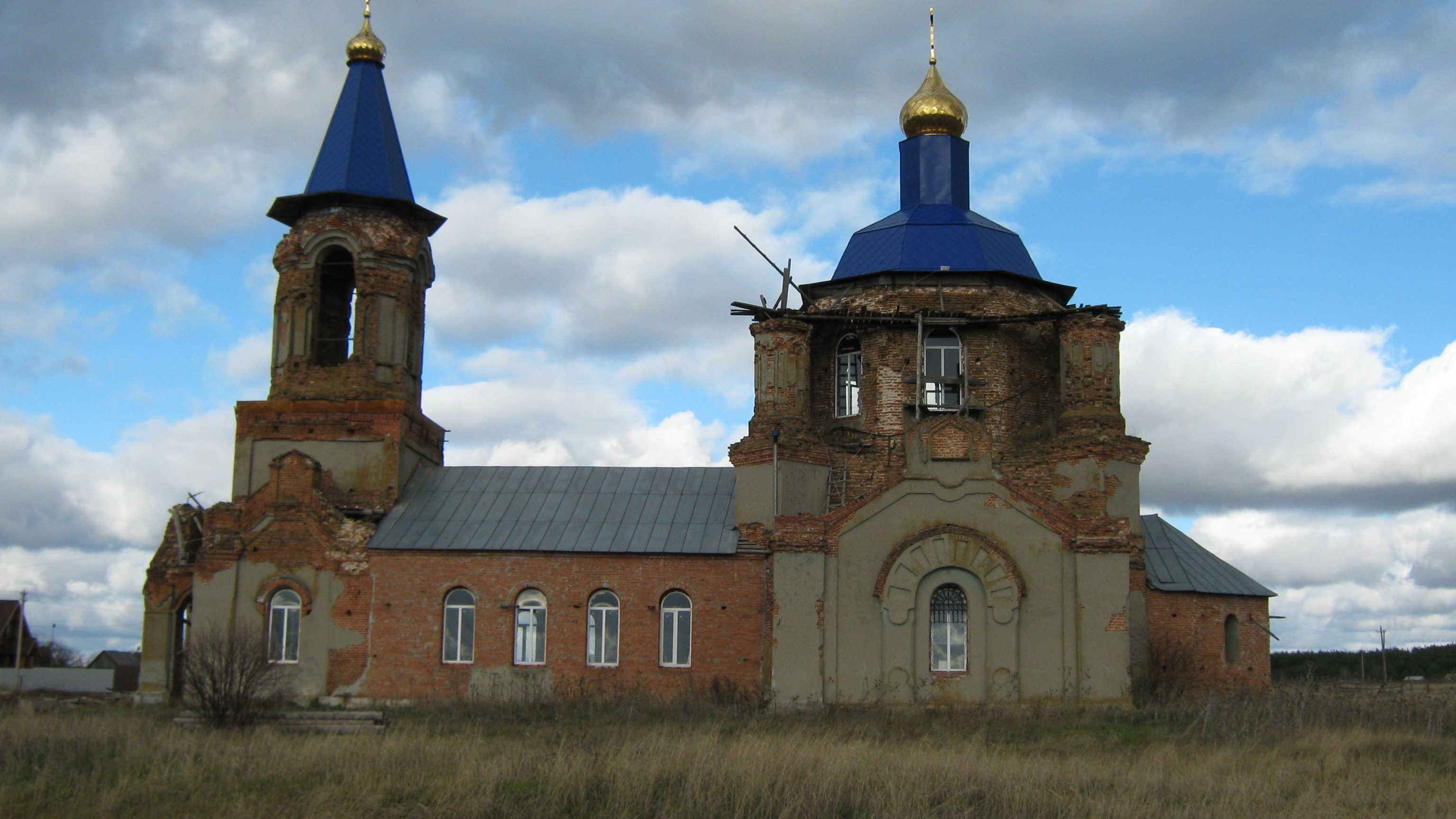 Church of St. Nicholas. Nelzha